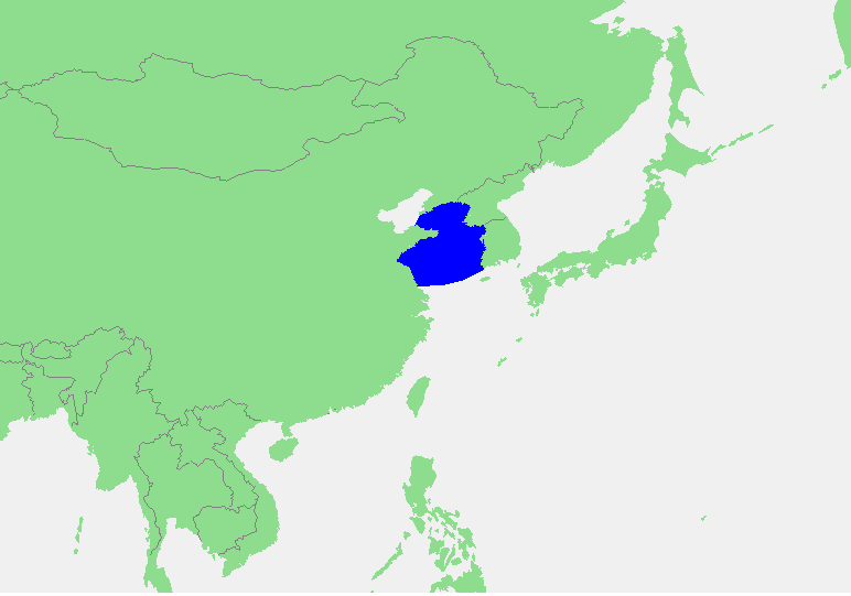 Location of Yellow Sea